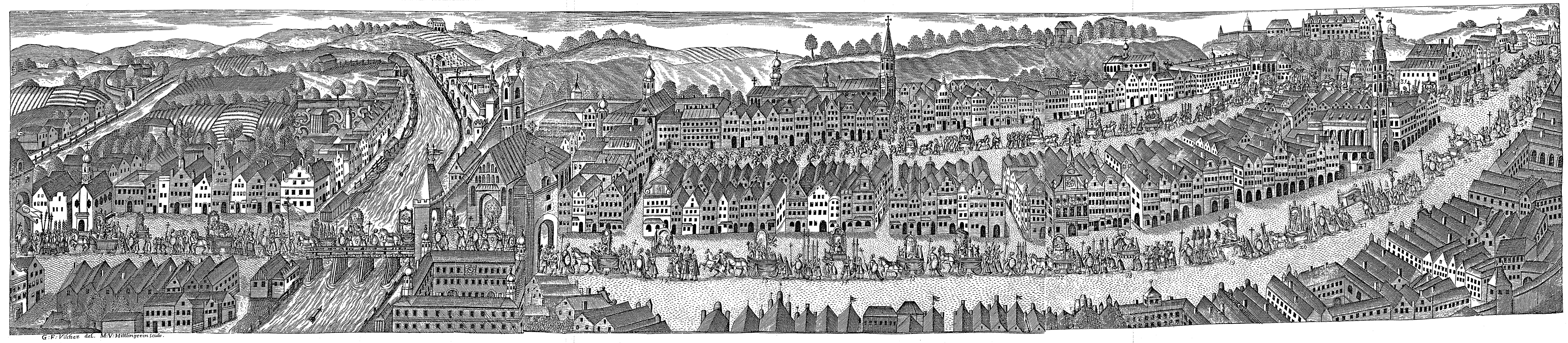 Chalcography: Corpus Christi procession 1733 in Landshut, Bavaria